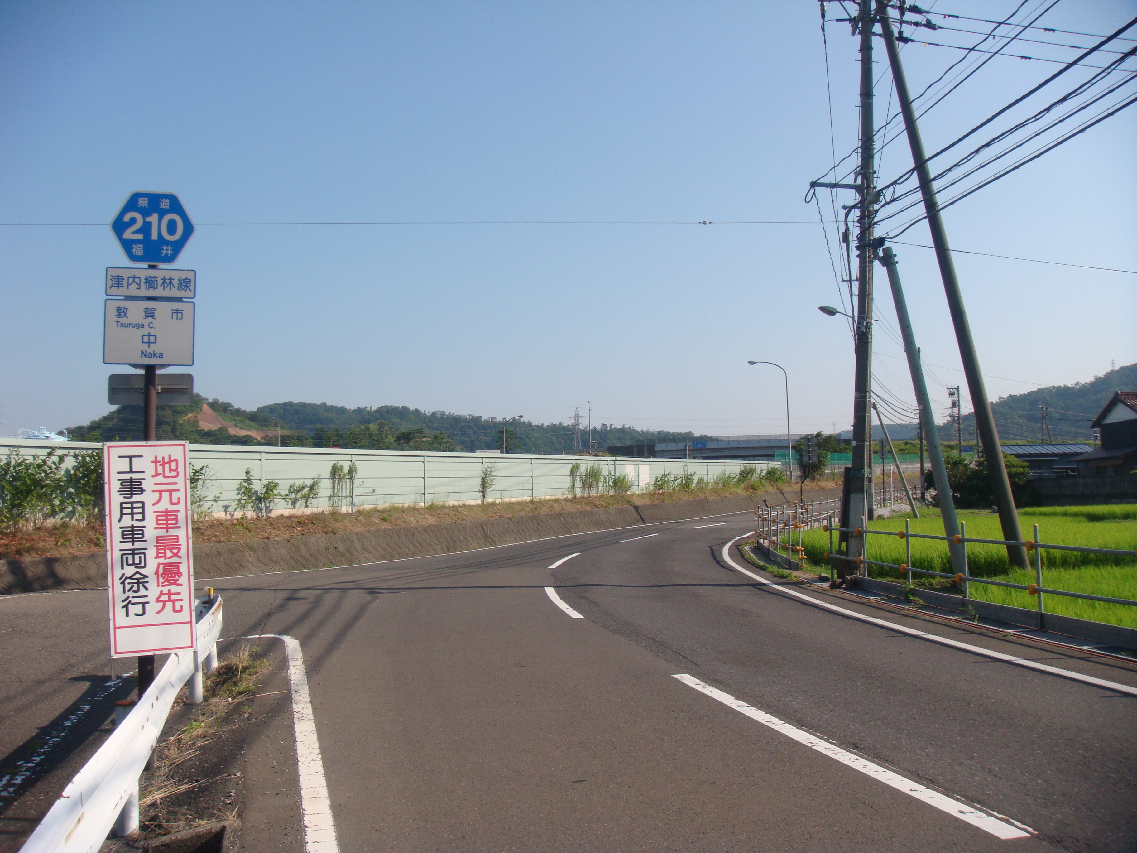 Fukui Prefectural Road Route 210（Tsunai-Kushibayashi Line） The meaning of the left signboard:The vehicle for exclusive use of the construction go slowly.The car of neighboring inhabitants has top priority. Place - Naka,Tsuruga City,Fukui Prefecture,Japan Date - July 16, 2011 Format - JPEG, 3648x2736pixel, 24bit colors Photographer - NALA Wiki (talk)